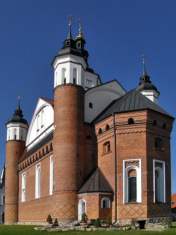 cerkiew zwiastowania NMP Supraśl powiat białostocki